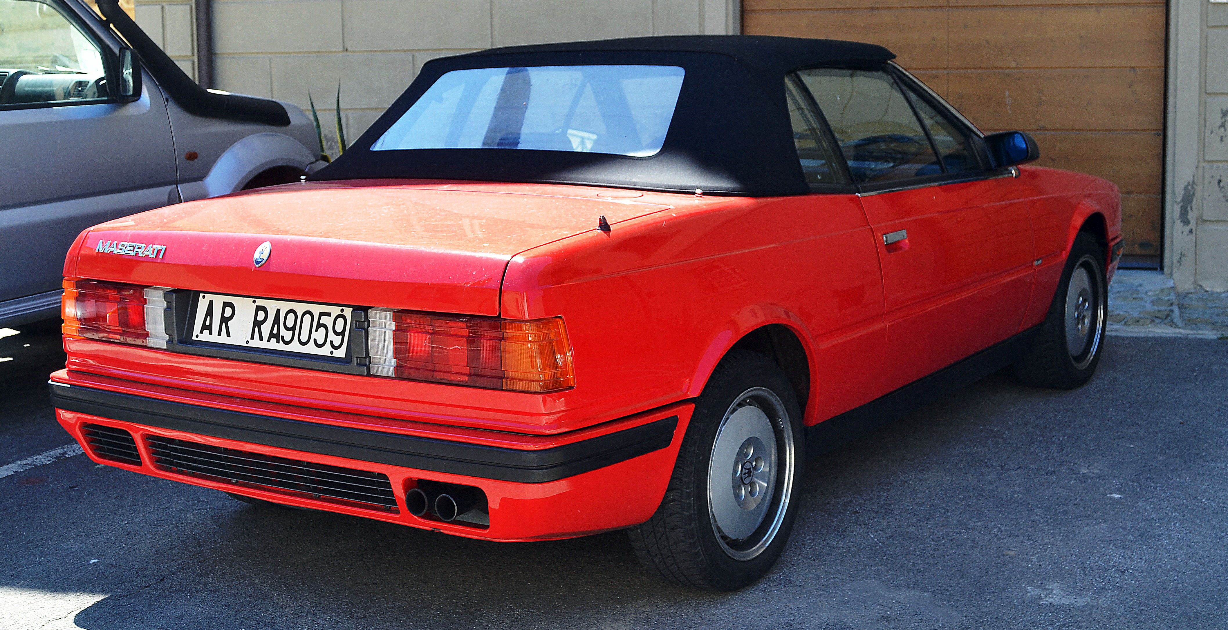 Maserati Biturbo Spyder